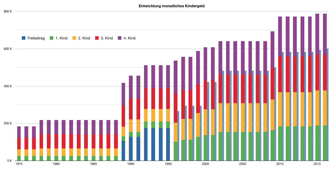 German federal Kindergeld since 1975, by month